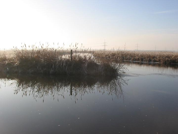 Mouth of the river Nieplitz into the river Nuthe (Nuthe in the foreground) nearby Jütchendorf. The village Jütchendorf is a part of the town Ludwigsfelde in the district Teltow-Fläming, state Brandenburg, Germany. The village is situated in the Nature park Nuthe-Nieplitz.